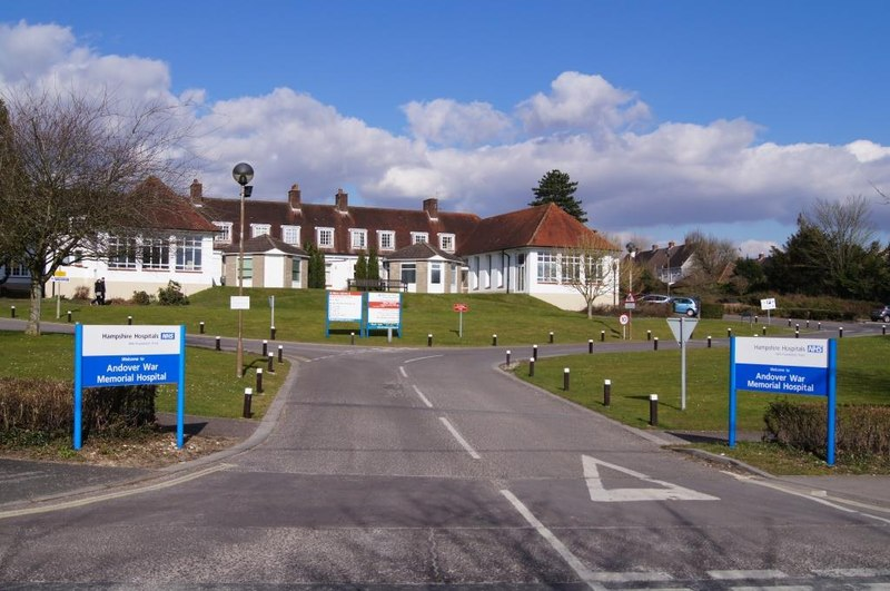 The entrance to Andover War Memorial Hospital, pictured in 2013.